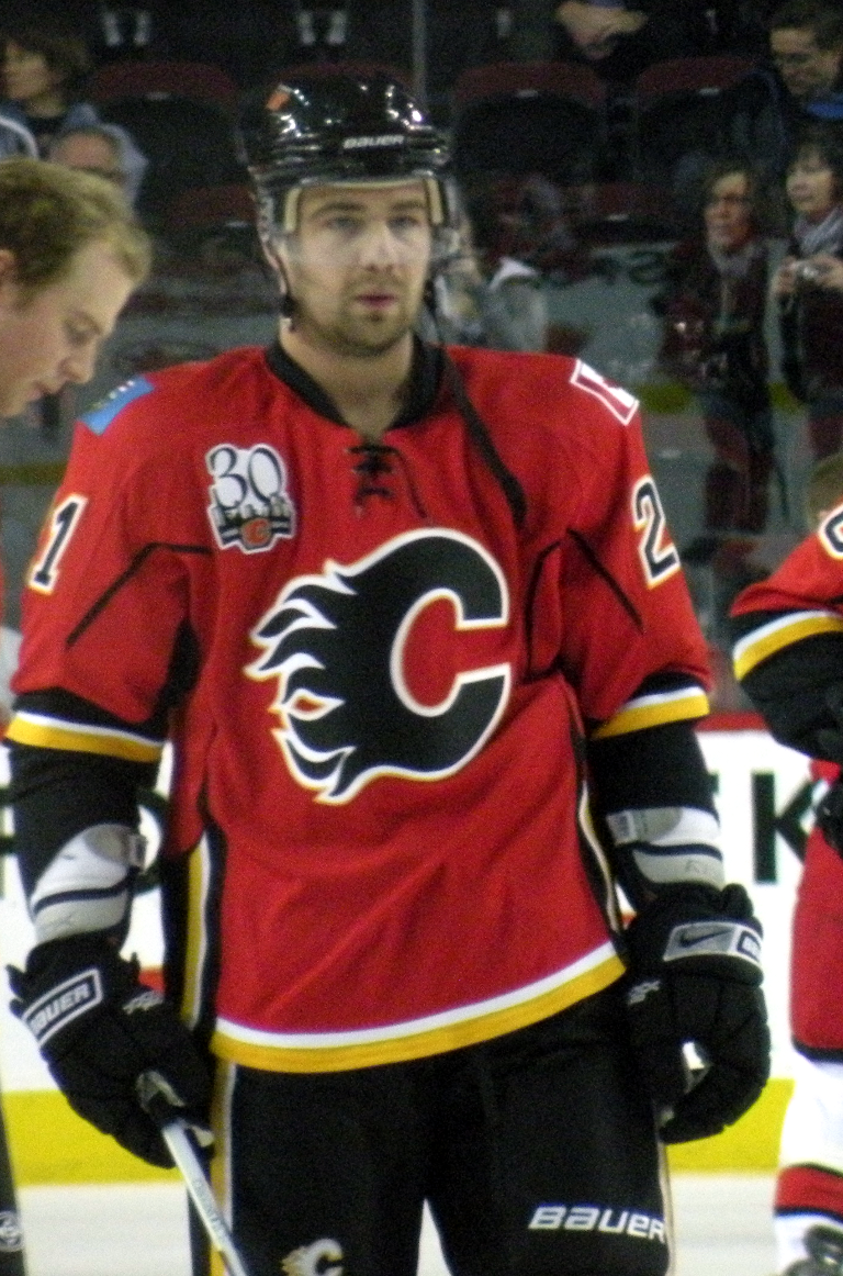 Calgary Flames forward Christopher Higgins prior to a National Hockey League game against the Carolina Hurricanes.